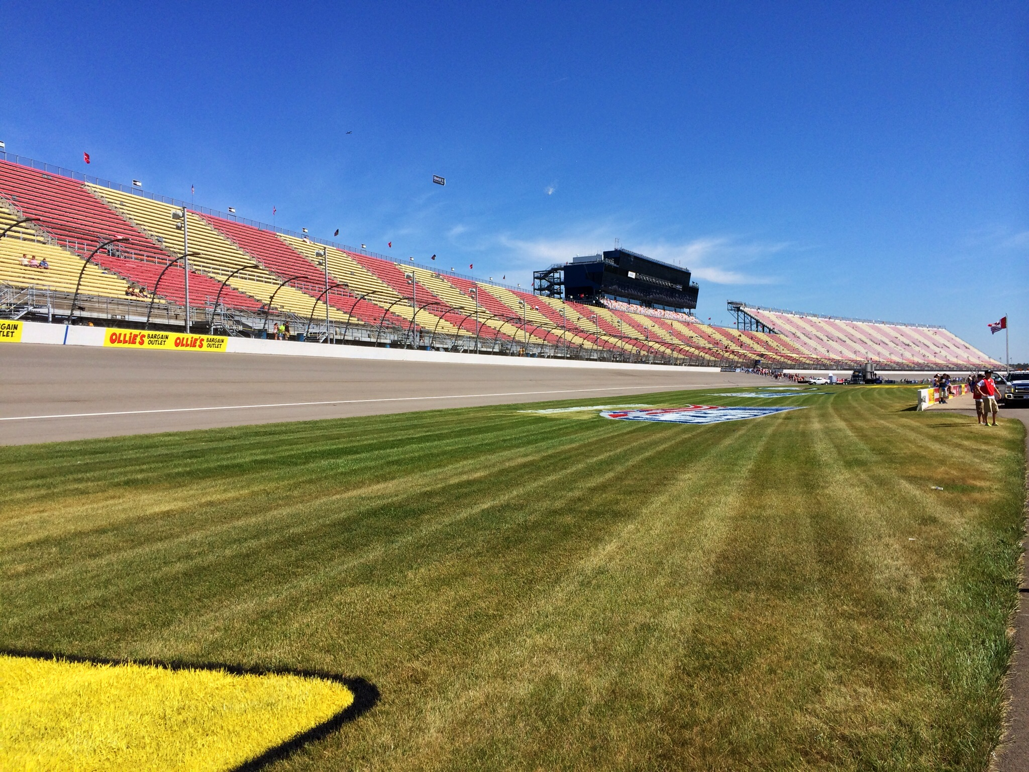 Michigan International Speedway's front stretch, view from the infield early on race day.